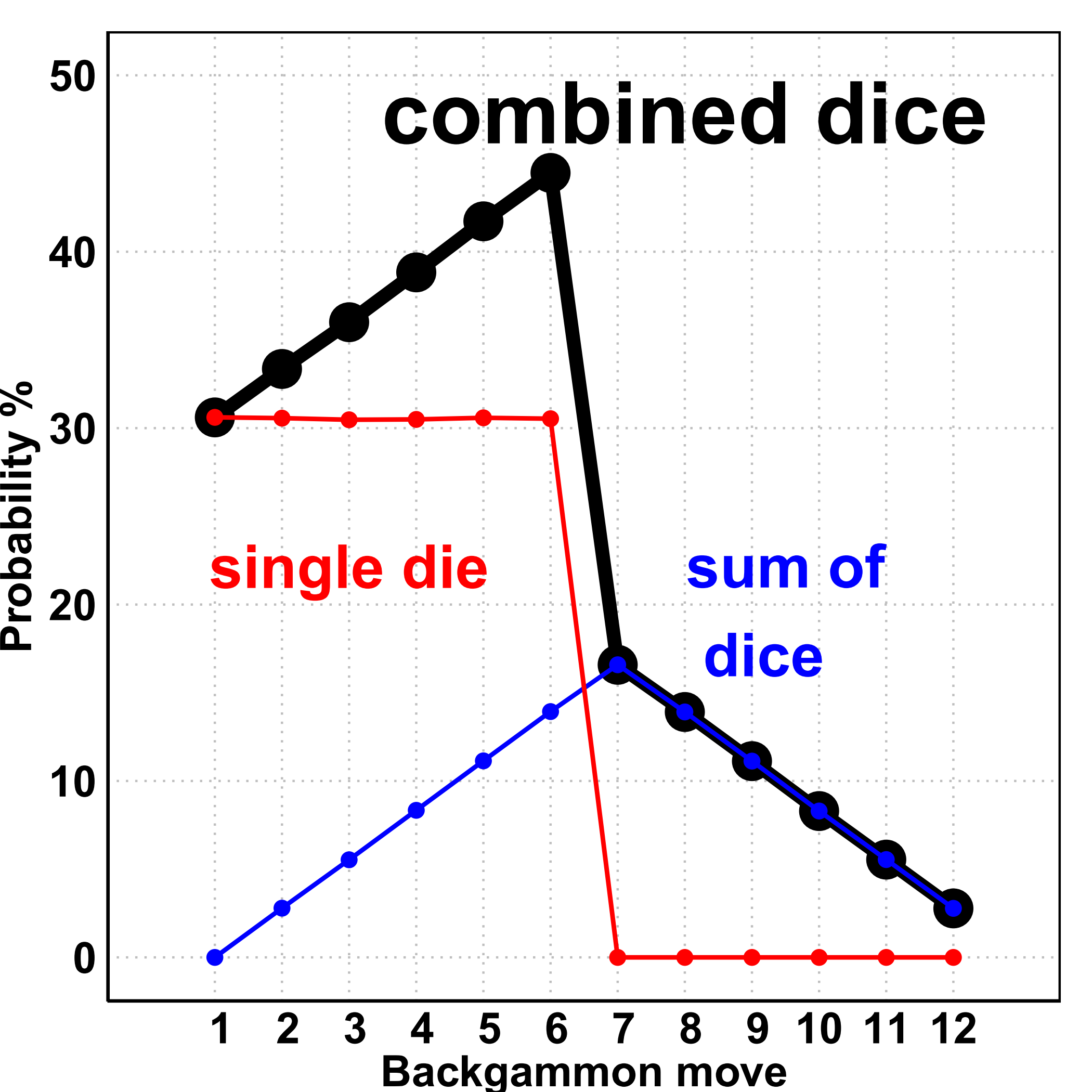 Probability distribution of possible backgammon moves illustrated by division of probabilities into probability of one die, the sum of two dice and the combined probability of the two cases from 1-12. Six has the highest probability to occur during one move in backgammon (44.44%).